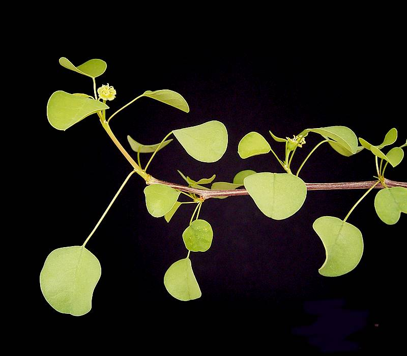 Euphorbia californica